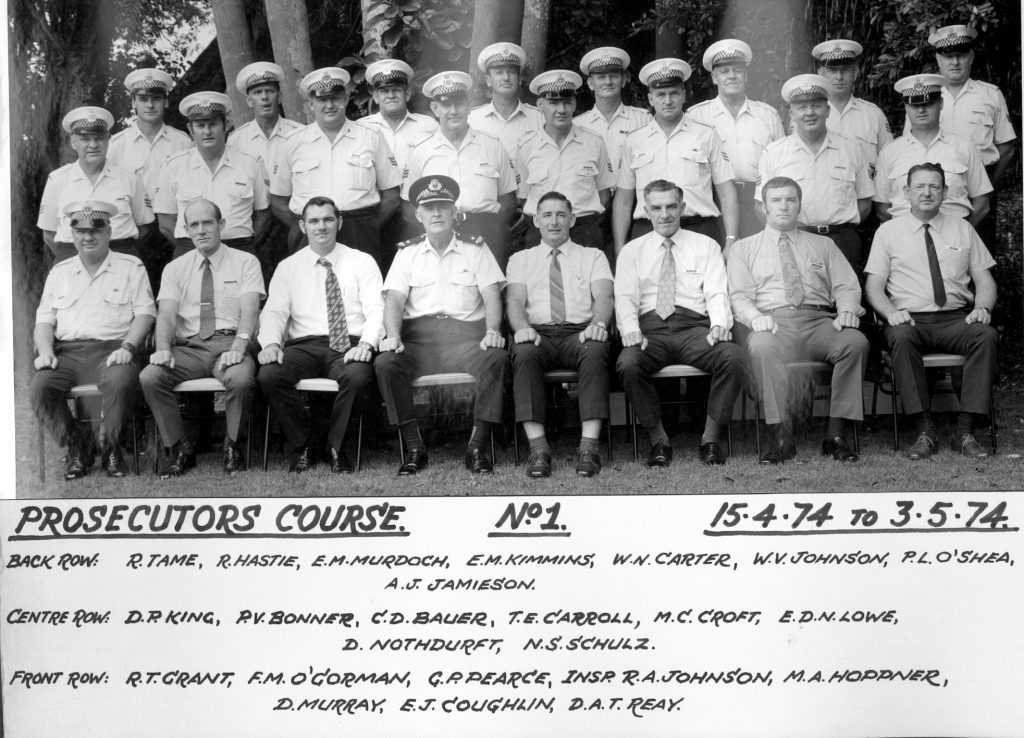 First group of police to do the Queensland Police Prosecutors Course, 1974. The course was held at the Chelmer Police College.